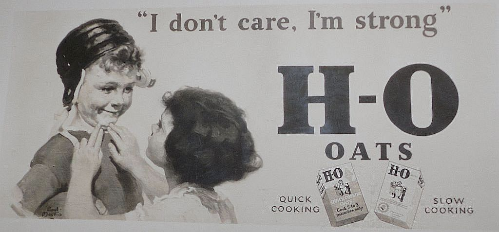 A young football player receives first aid for a chin scrape. The duo were photographed together (not separately) during the shoot.